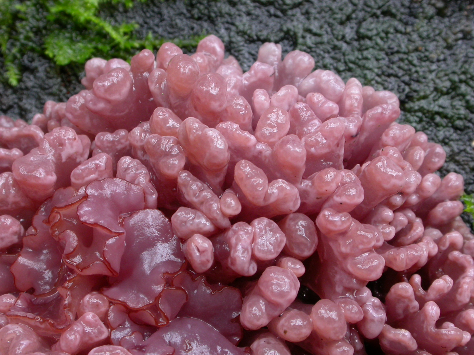 The fungus Ascocoryne sarcoides (Jacq.) J.W. Groves & D.E. Wilson, photographed in Pacific Spirit Park, Vancouver BC Canada. Notes: "Growing on a cut hardwood stump."